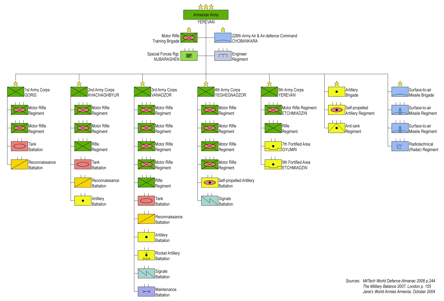 Armenian Army OrBat 2010